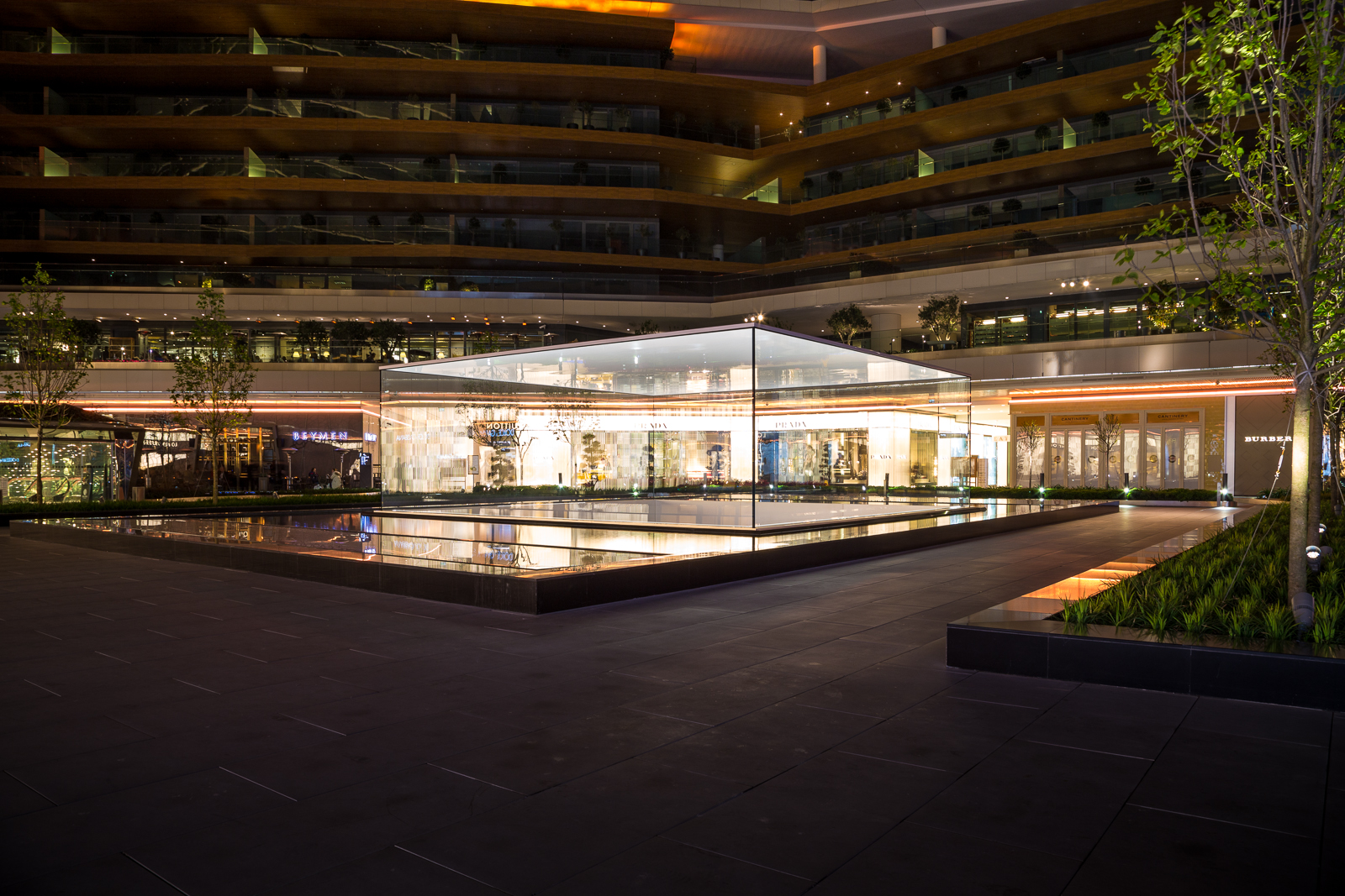 The store is underground and there is no identification at ground level. The sides of the box are giant seamless panes of glass. I was looking for it and I walked right up to it before I realized what it was.